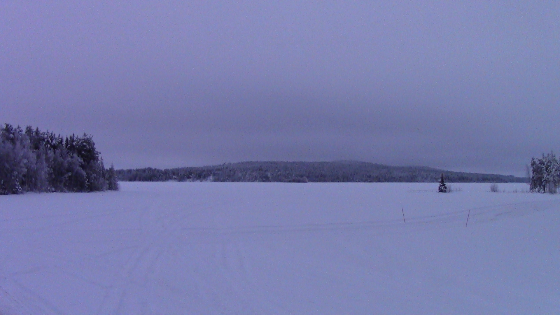 Frozen Lake Pöyliöjärvi near Peltosaari island in Kemijärvi.